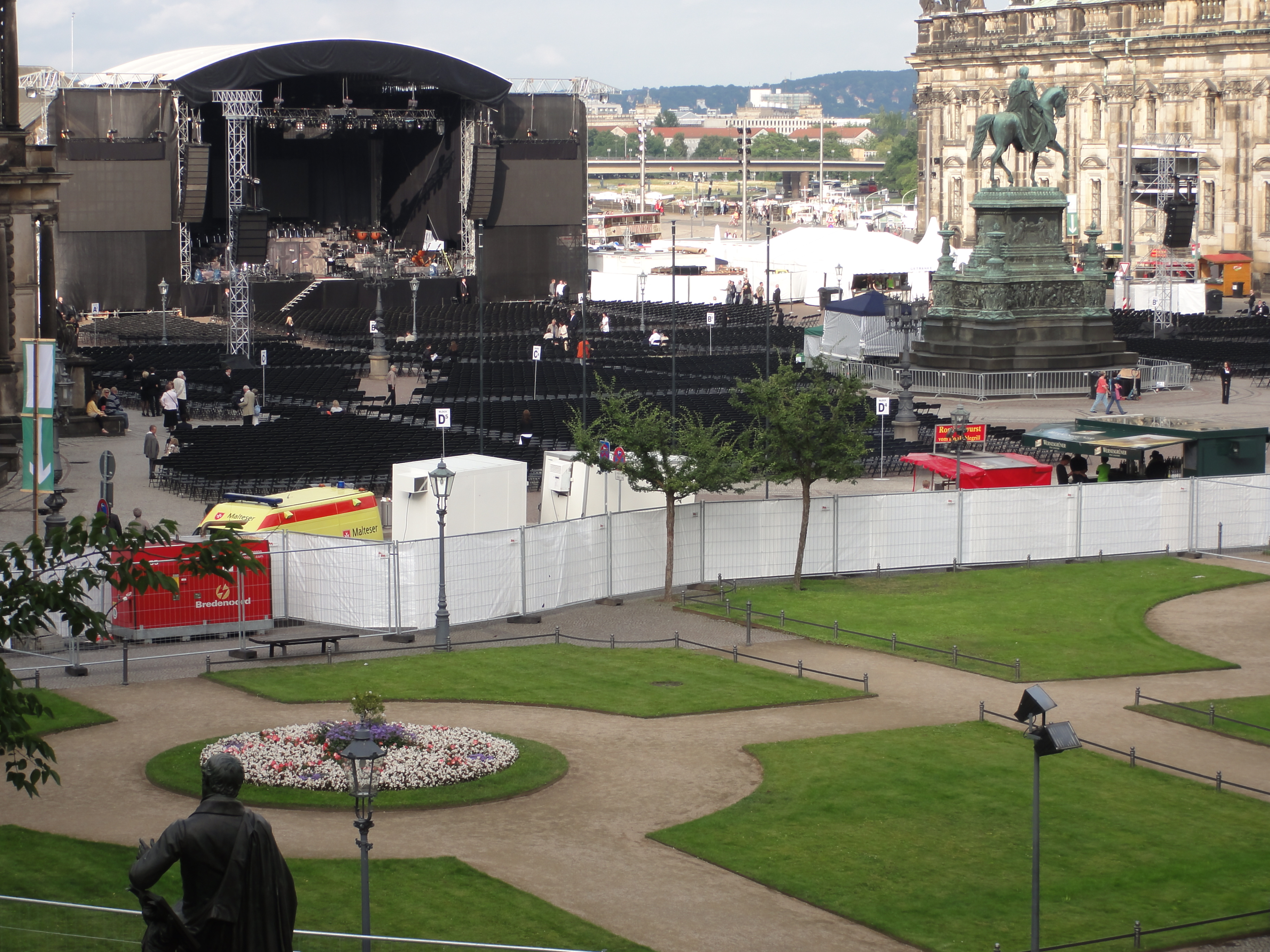 The stage of the David Garret Concert in Dresden.